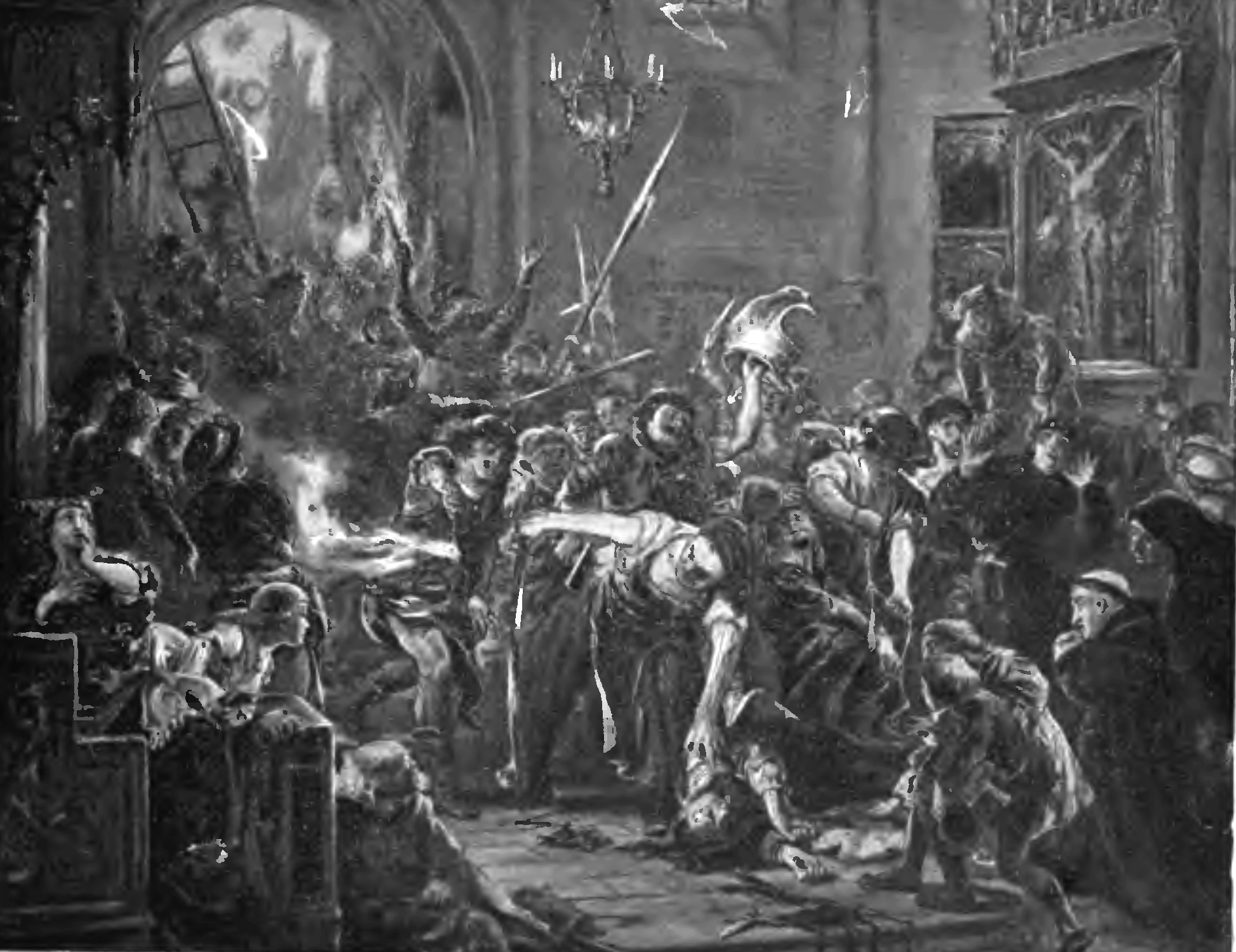 Murder of Jędrzej Tęczyńśki